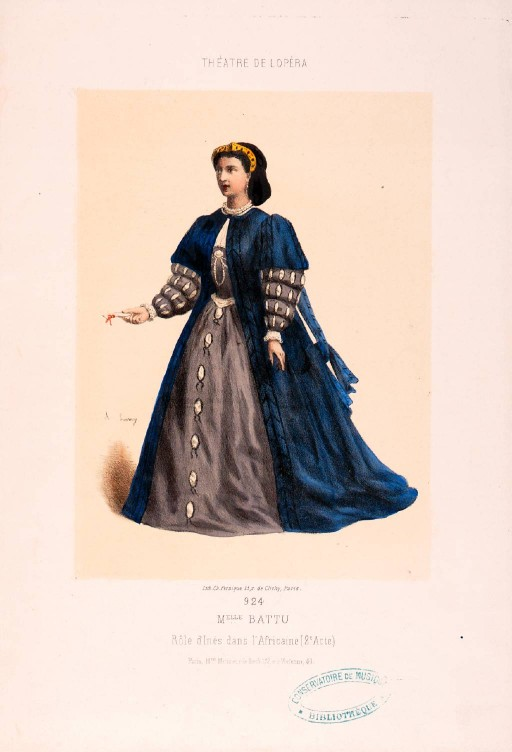 Lithograph of French actress Marie Battu as Inès in Giacomo Meyerbeer's opera L'Africaine".